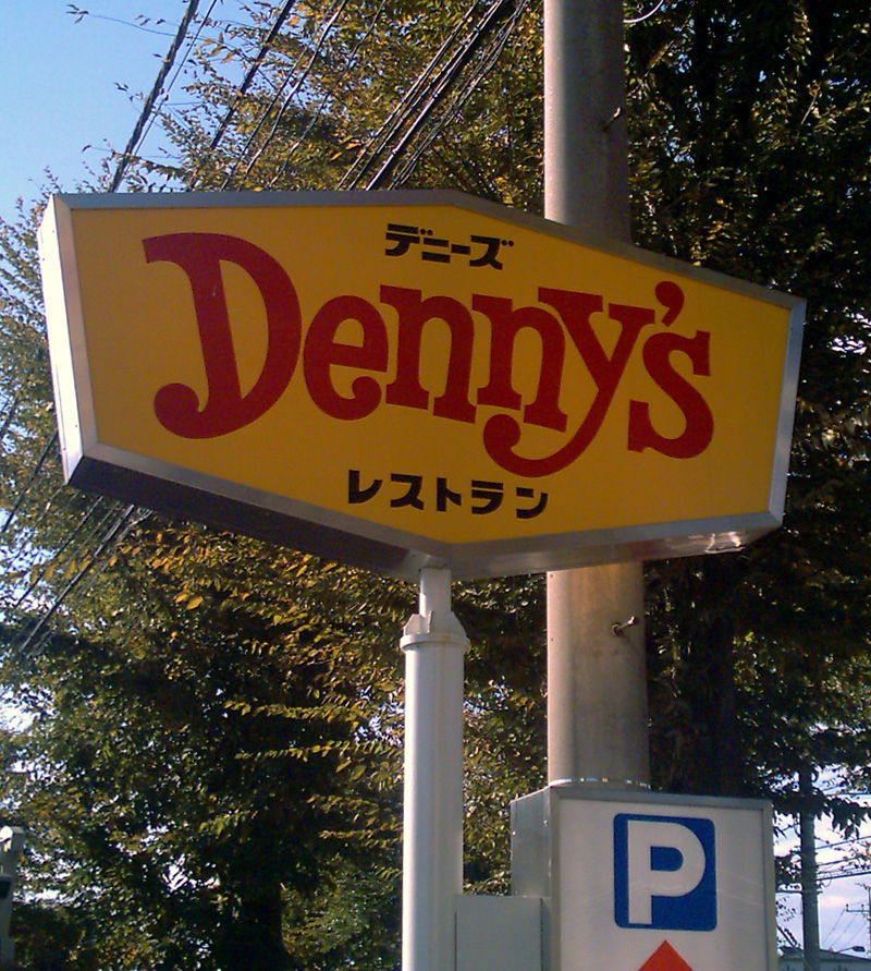 Dennys-Restaurant_in Japan photography day, 2006/11/21 photography person kici デニーズ